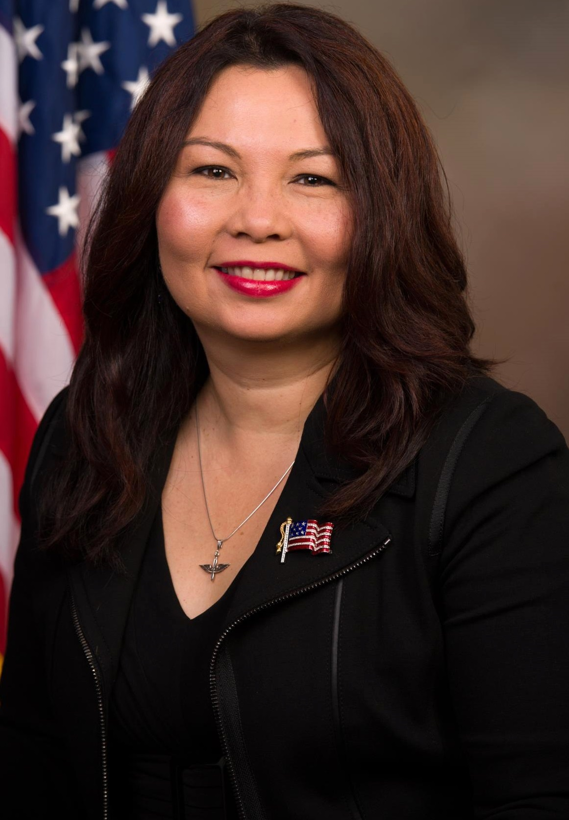 Official portrait of Congresswoman Tammy Duckworth (D-IL), crop of original